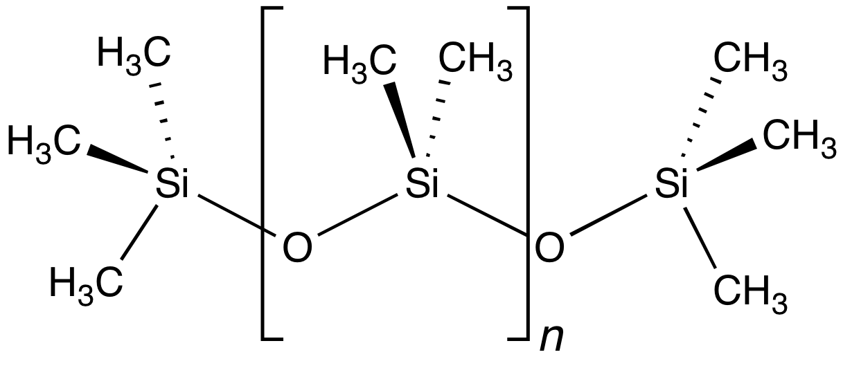 improved image of polydimethylsiloxane